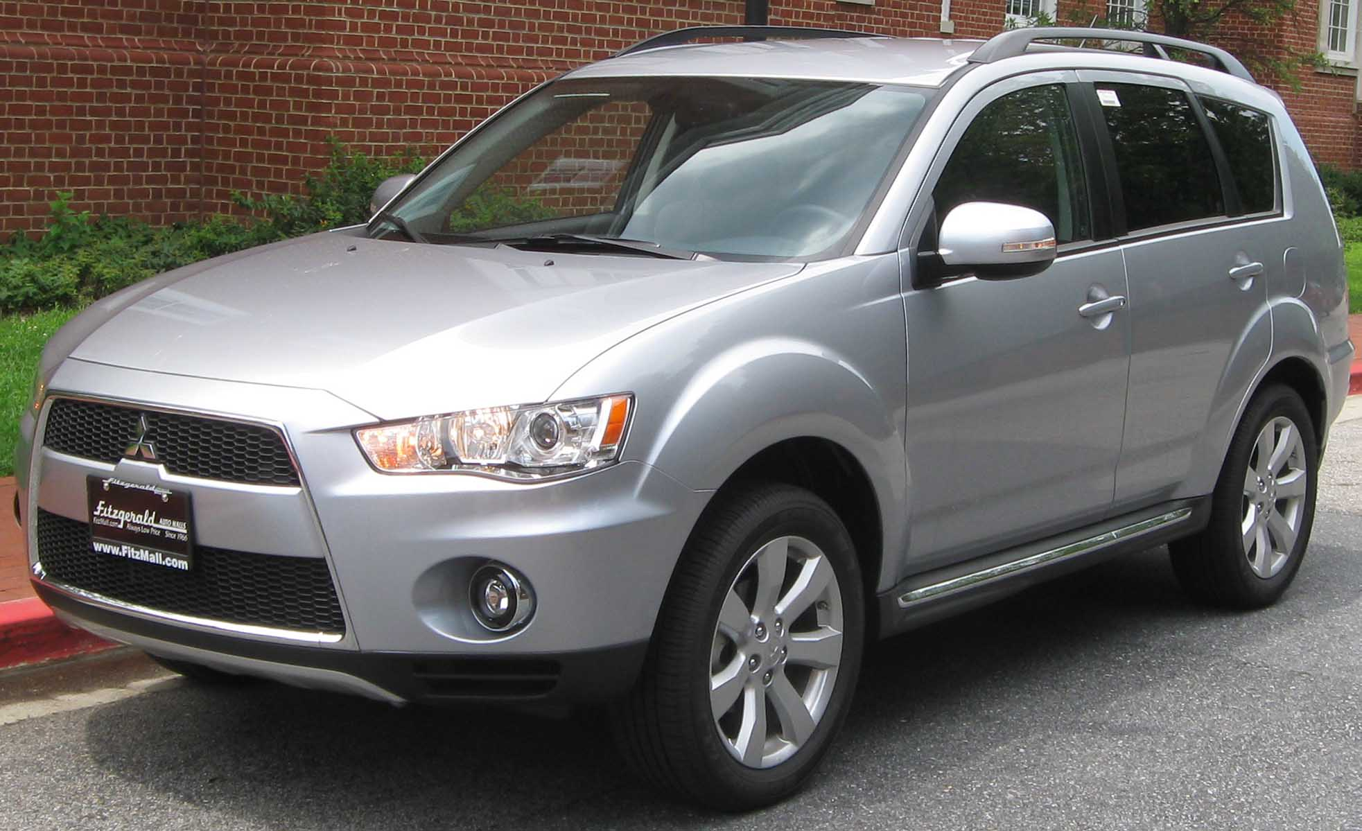 2010 Mitsubishi Outlander photographed in Annapolis, Maryland, USA.